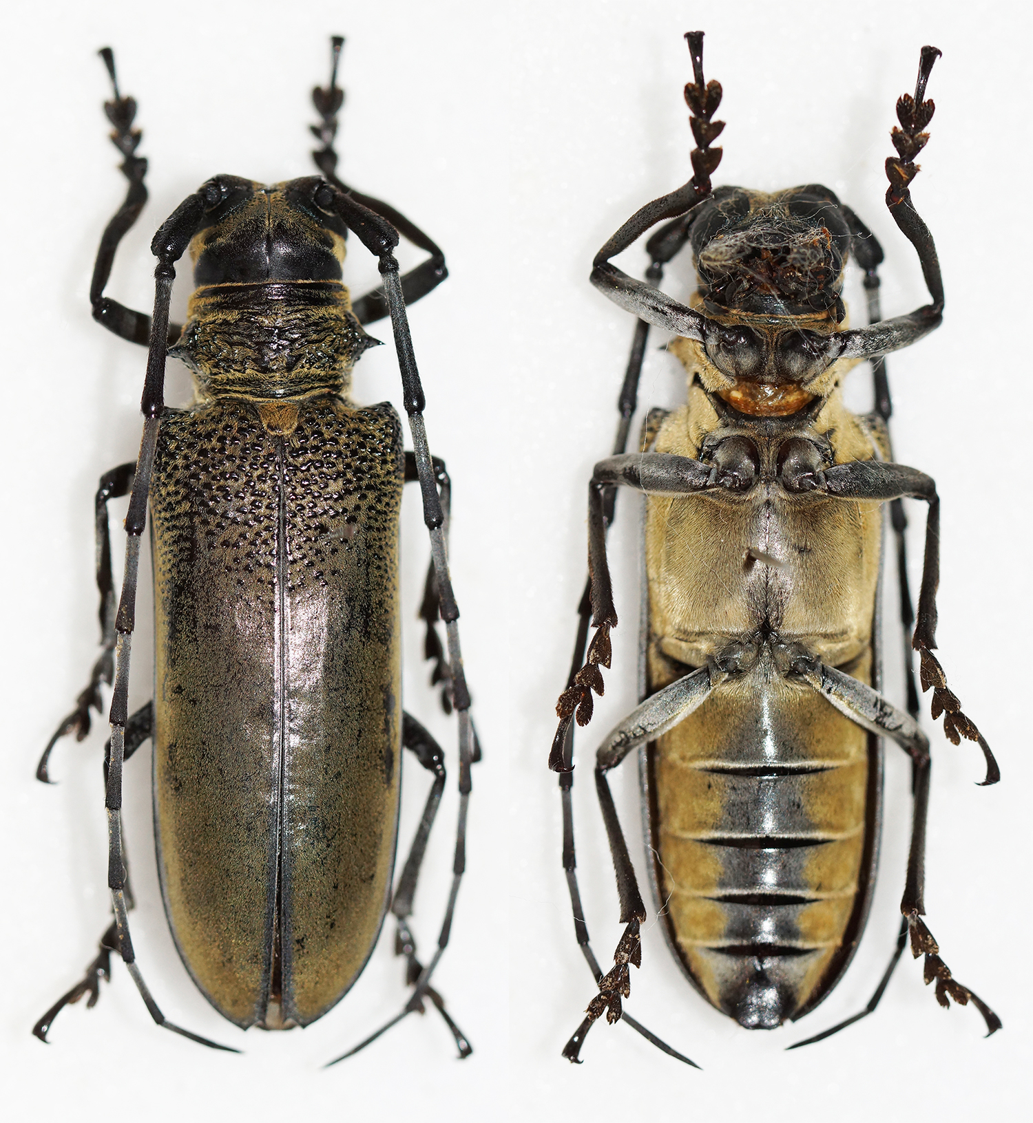 Thomson, 1878 Sex: Female Data: 19-07-14 - Akatsuka - Itabashi Ward - Tokyo - Japan Size: 44mm